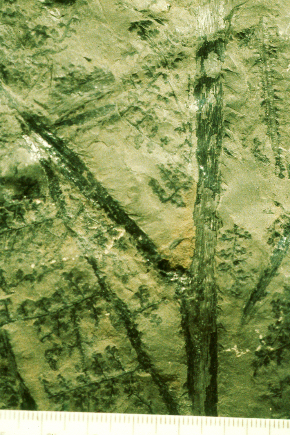 Leaf of Sphenopteris hoeningshausenii from Late Carboniferous, Subconglomerate Coal, Dade Co, Georgia (Georgia Natural History Museum v2014).